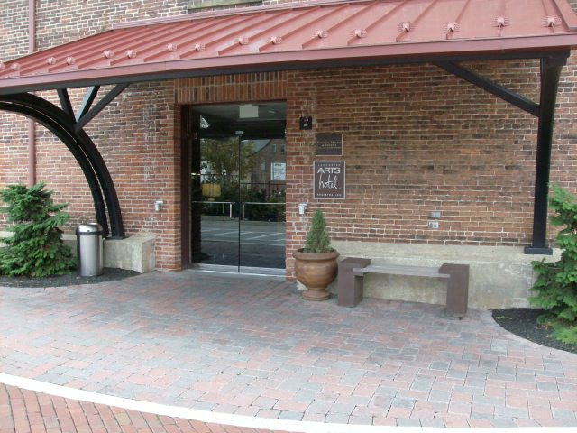 Entrance to the Lancaster Arts Hotel in Lancaster, Pennyslvania